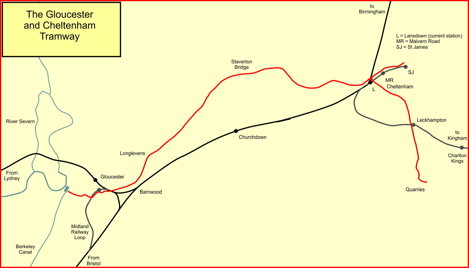 System map of the Gloucester and Cheltenham Tramroad (or Railway), England